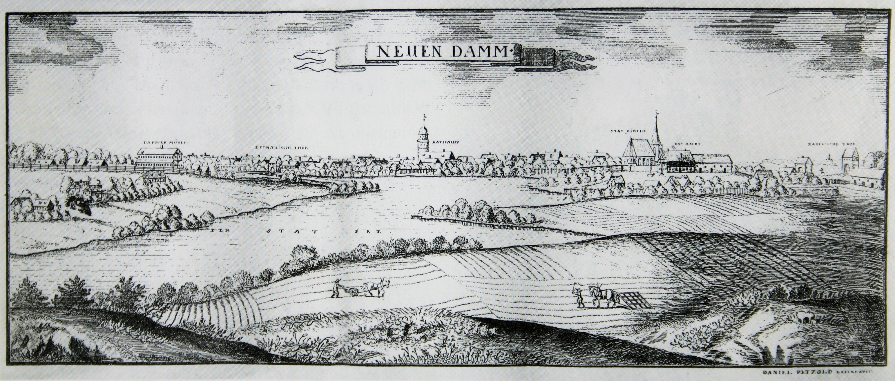 Town panorama by D. Petzold, year 1710